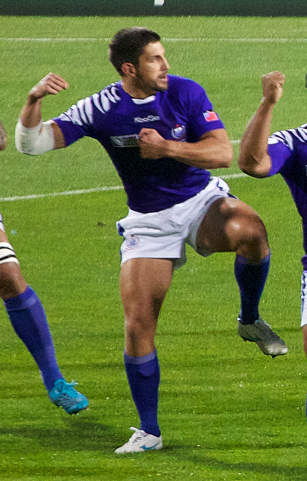 Samoan rugby union player Paul Williams before 2011 Rugby World Cup match against South Africa.